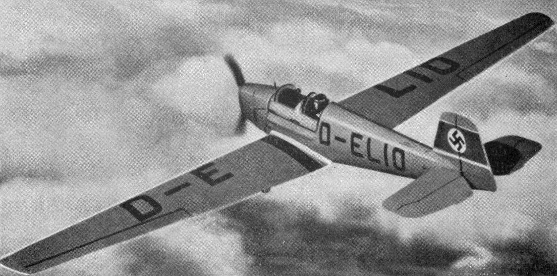 Bucker Bu.180 photo from L'Aerophile May 1938